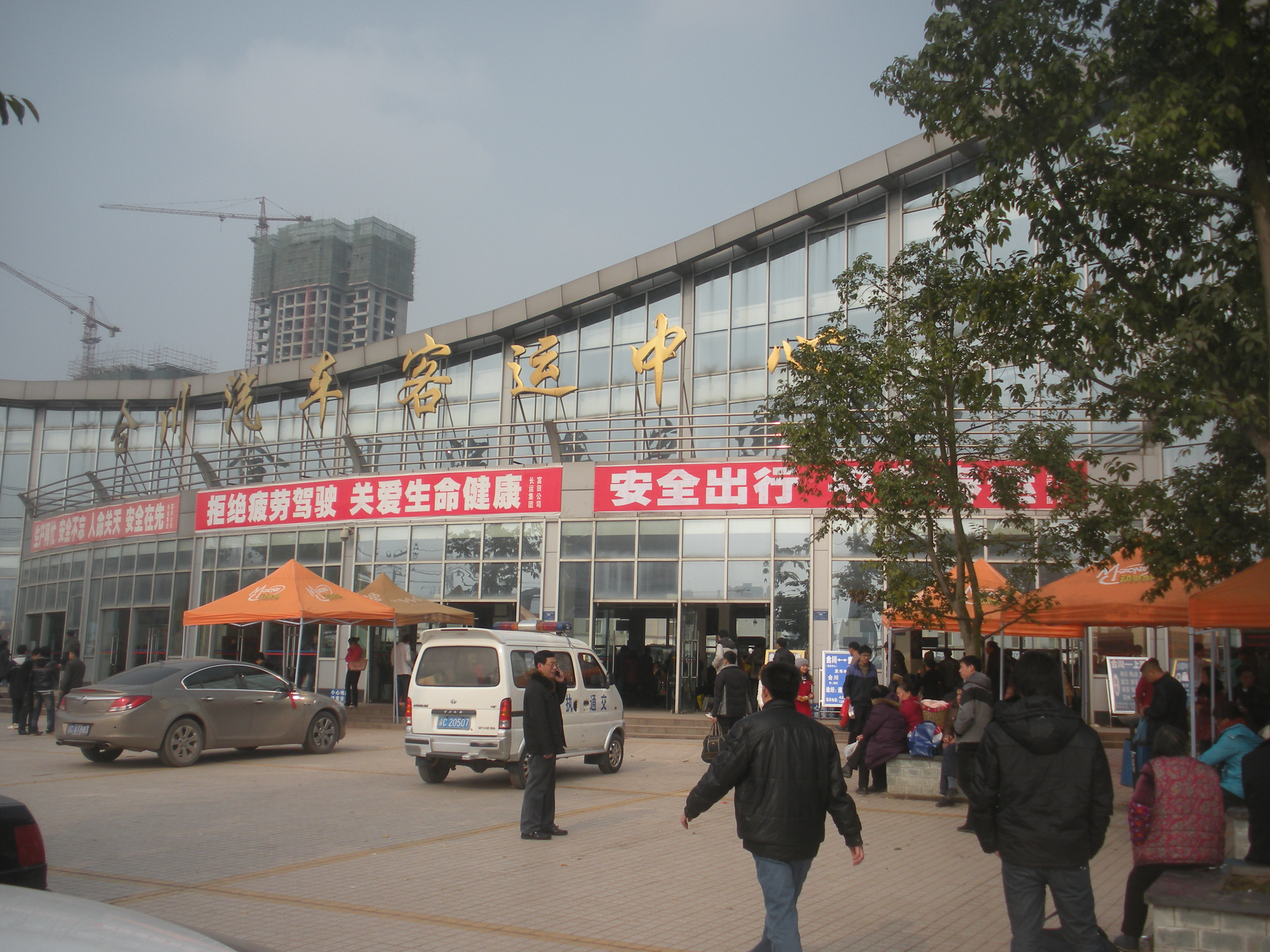 The Bus Terminal in Hechuan Districti, Chongqing.The photo has been taken by Prof.Chen Hualin